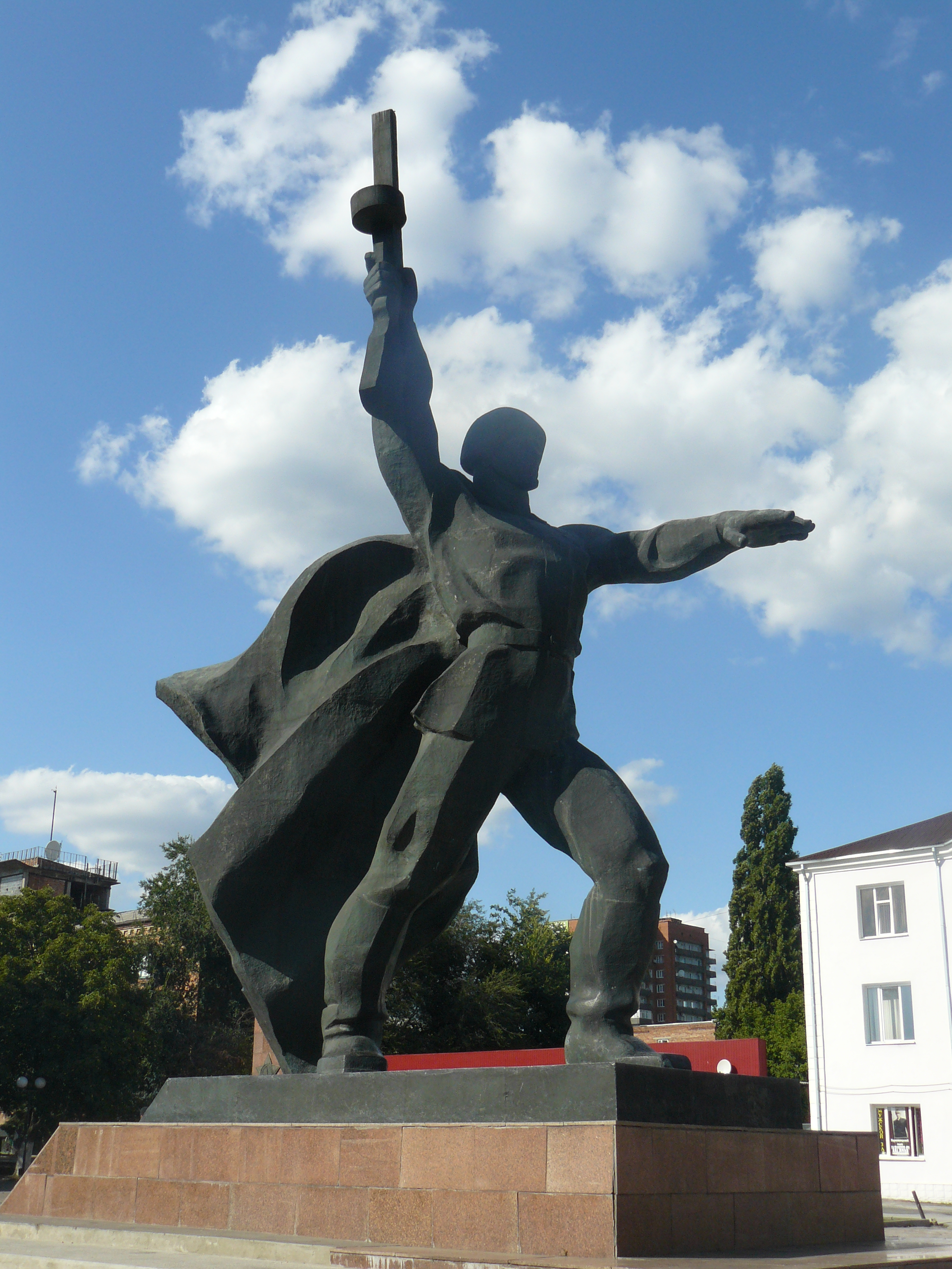 Monument "Soldier"